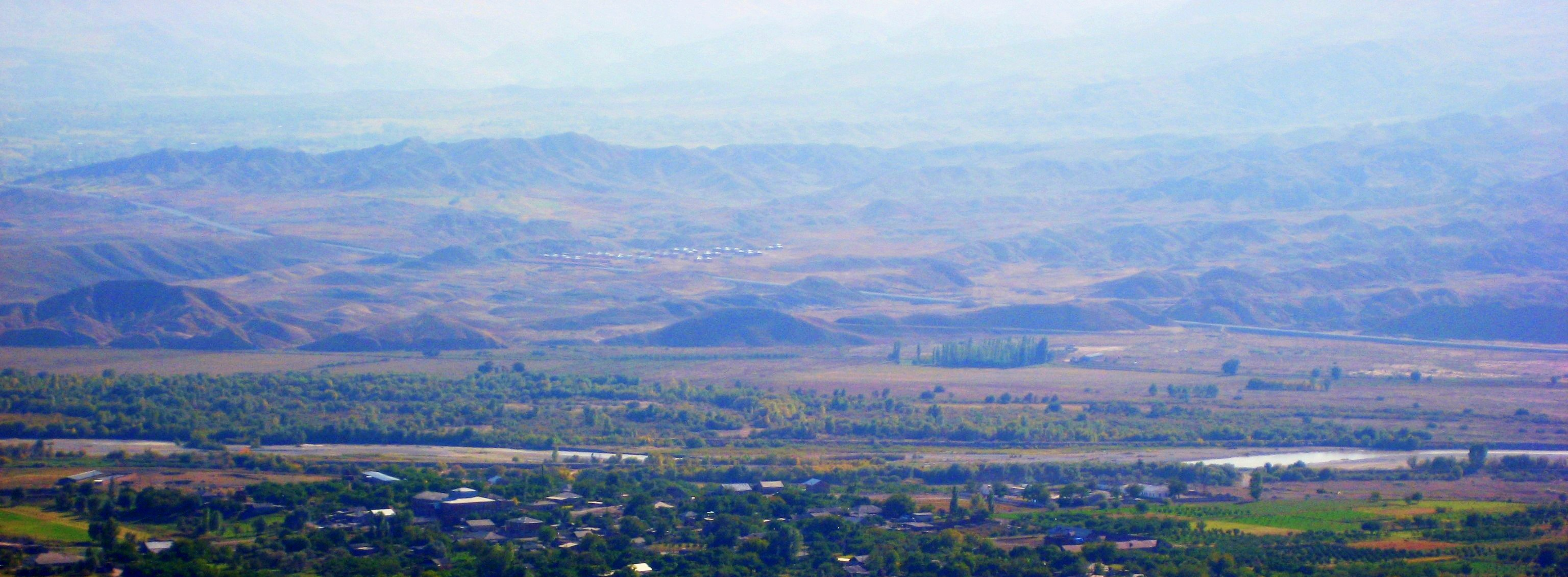 The height where the archaeological site of old Yervandashat is located.